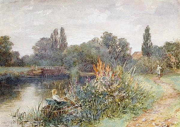 Waiting